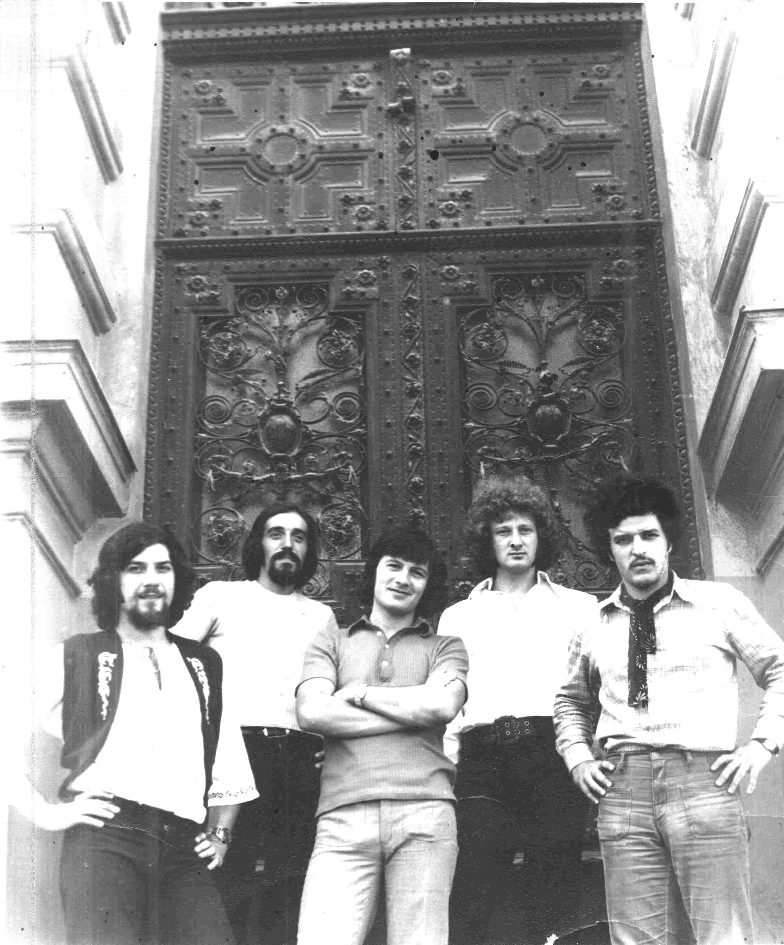 Phoenix in the golden age 1972-73